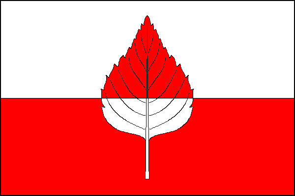 Municipal flag of Břežany , District Rakovník, Czech Republic